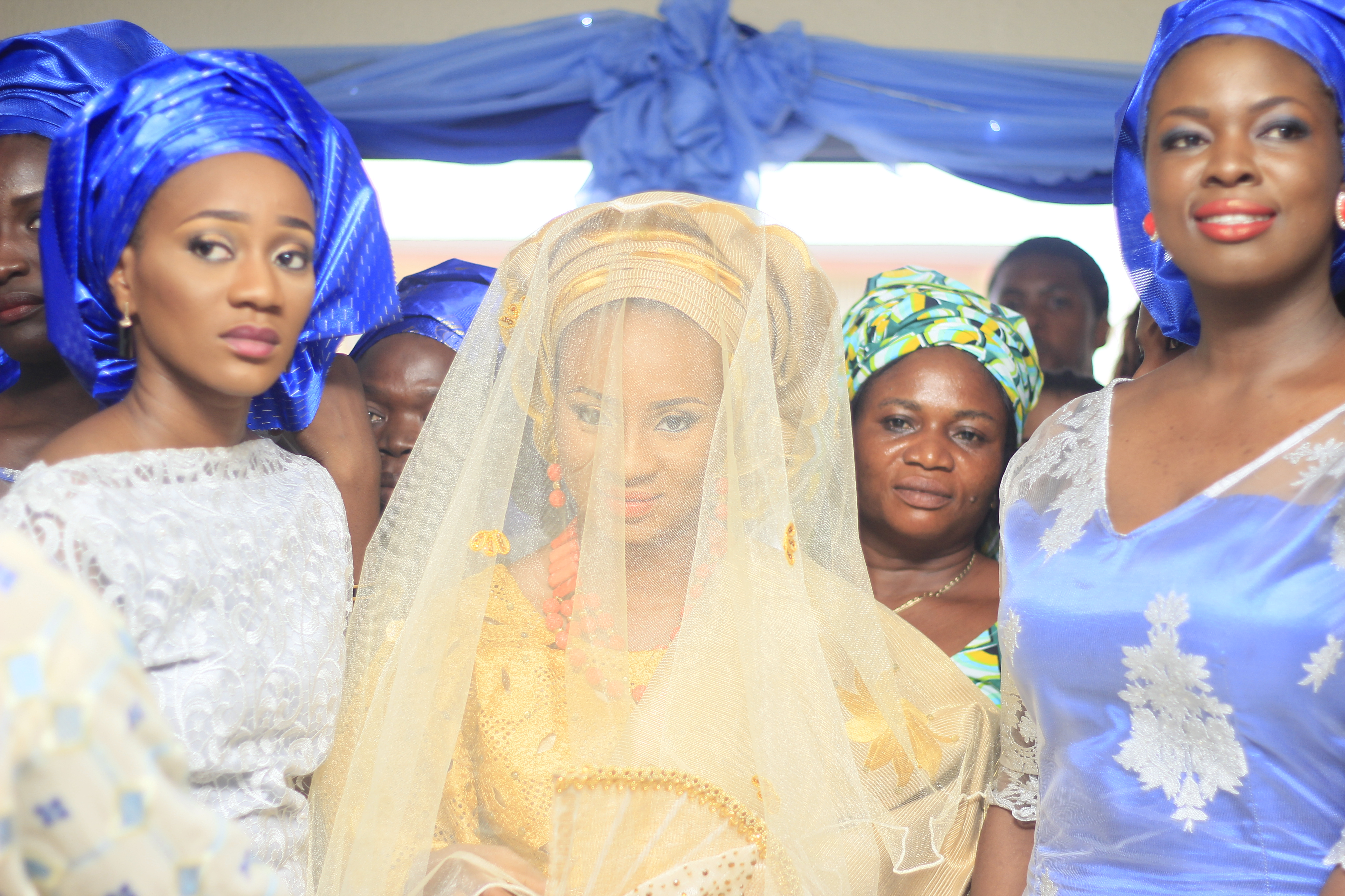 A Yoruba bride enters traditional wedding with her group of friends. Nigerian traditional clothing. This is an image of Cultural Fashion or Adornment from Nigeria